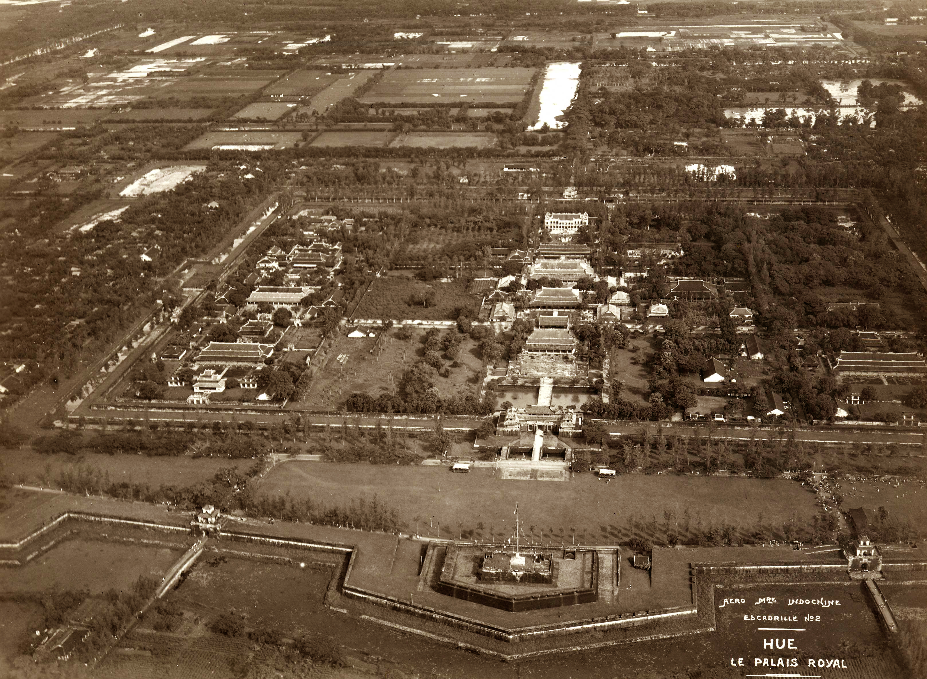 The aerial view of the Imperial City in Hue 11-9-1932 during the feast in honor of the takeover of Emperor Bảo Đại